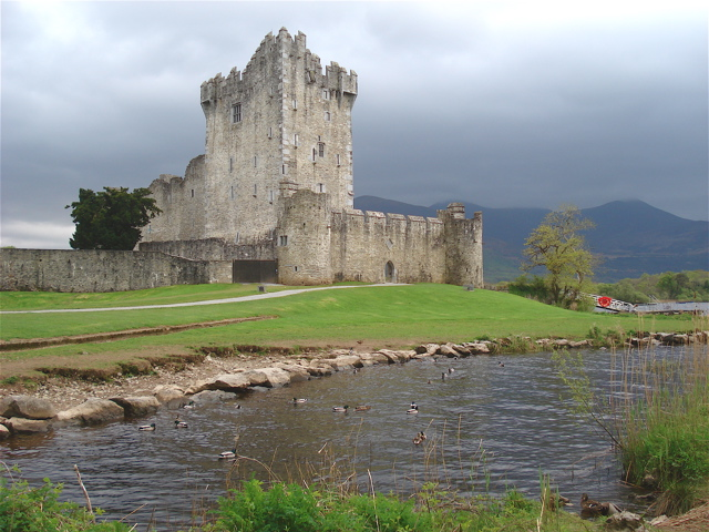 Ross Castle (Killarney National Park, Co. Kerry)